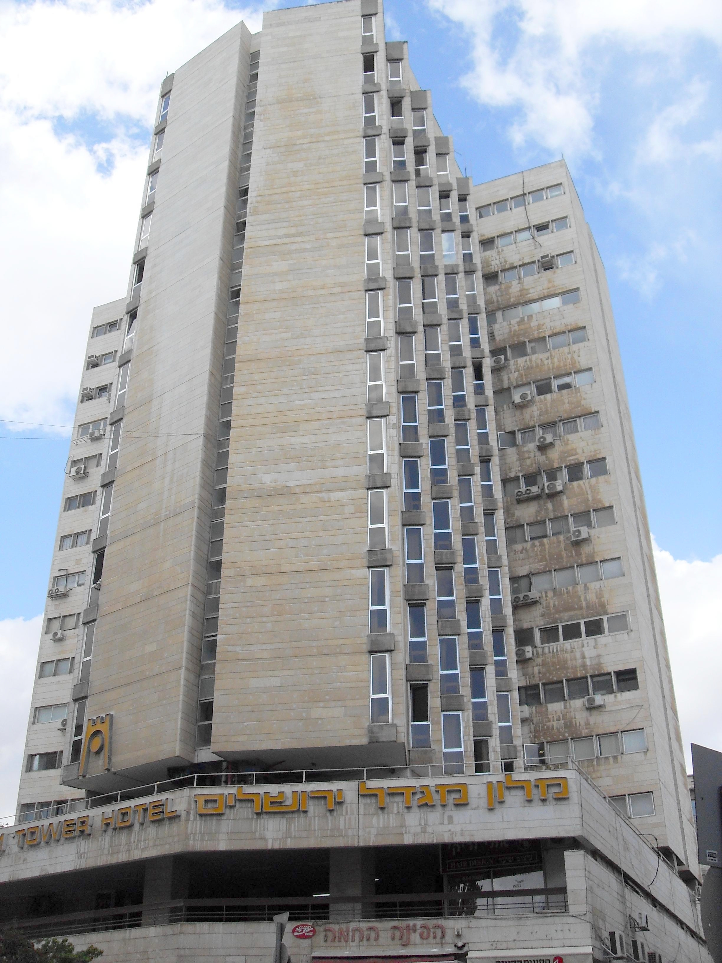 Jerusalem Tower Hotel